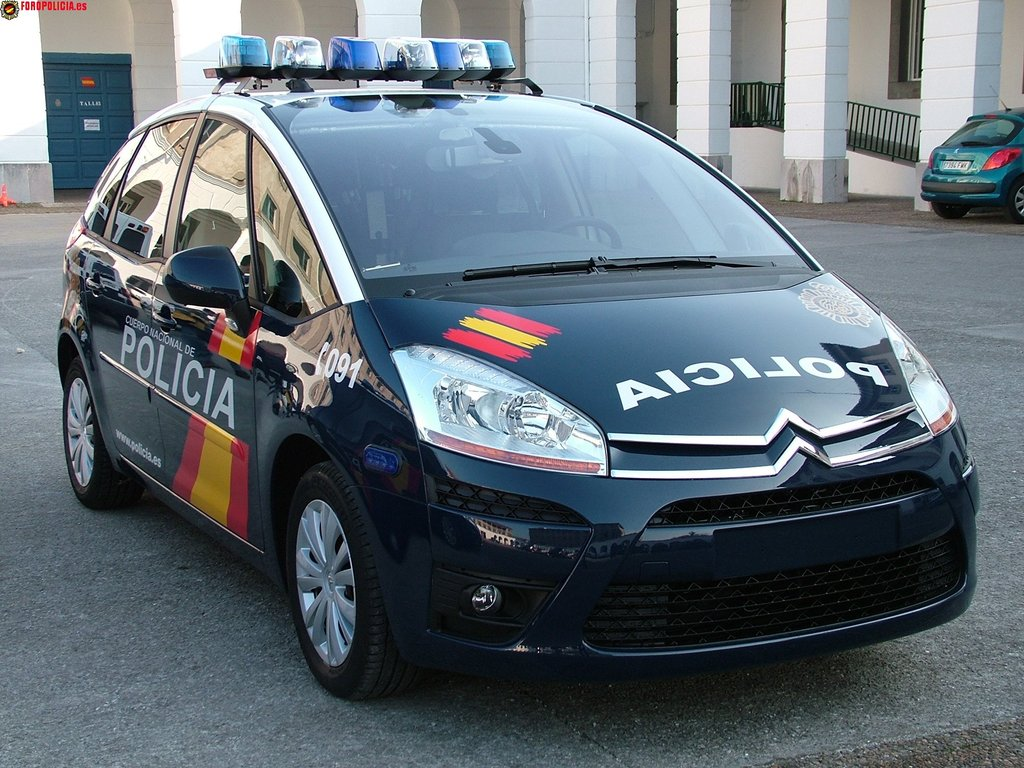 Citroën Picasso police car in Spain, with "POLICIA" in mirror writing ("AICILOP").